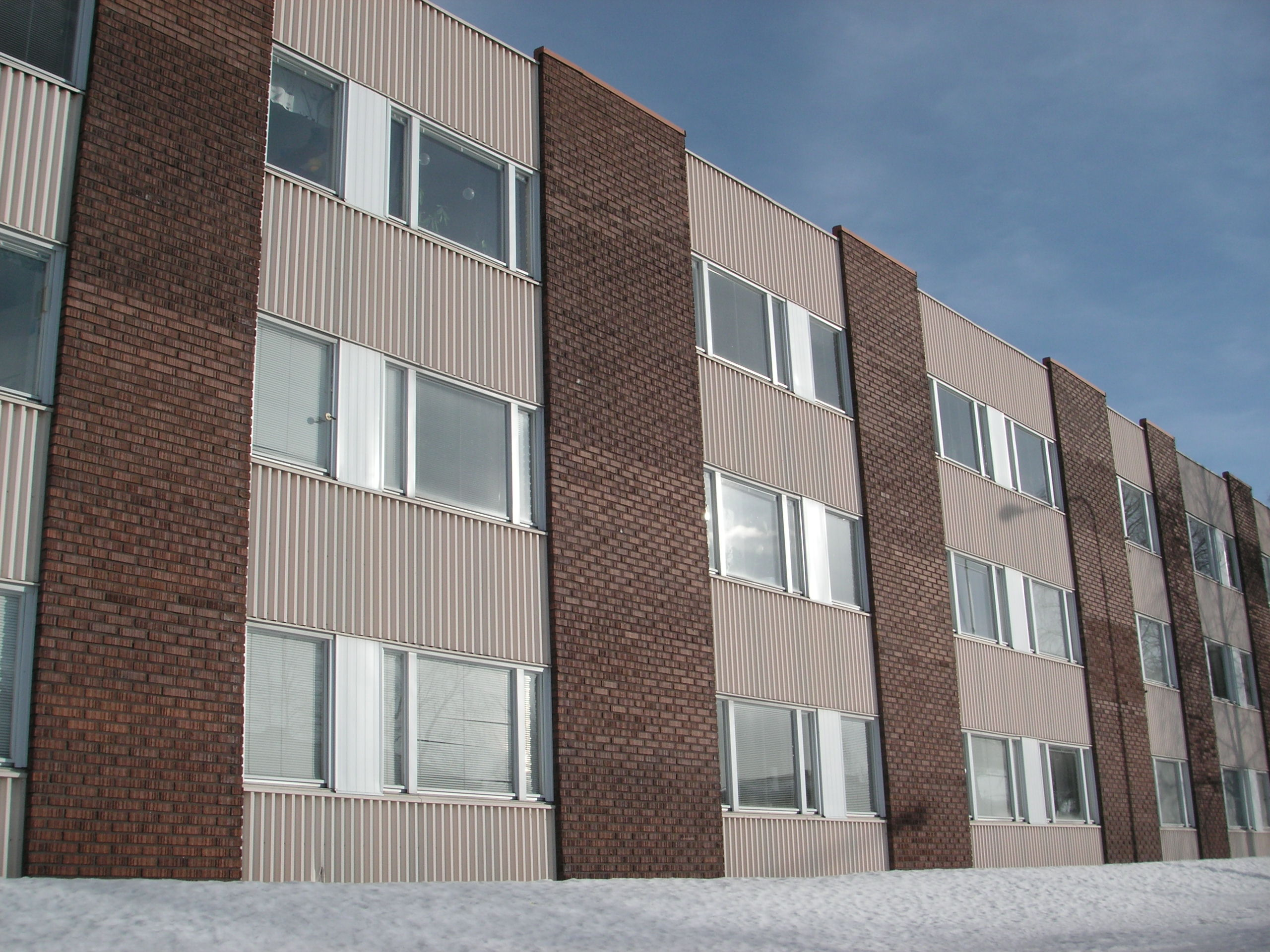 Apartment building typical for neighborhood area "Carlshem" in Umeå.